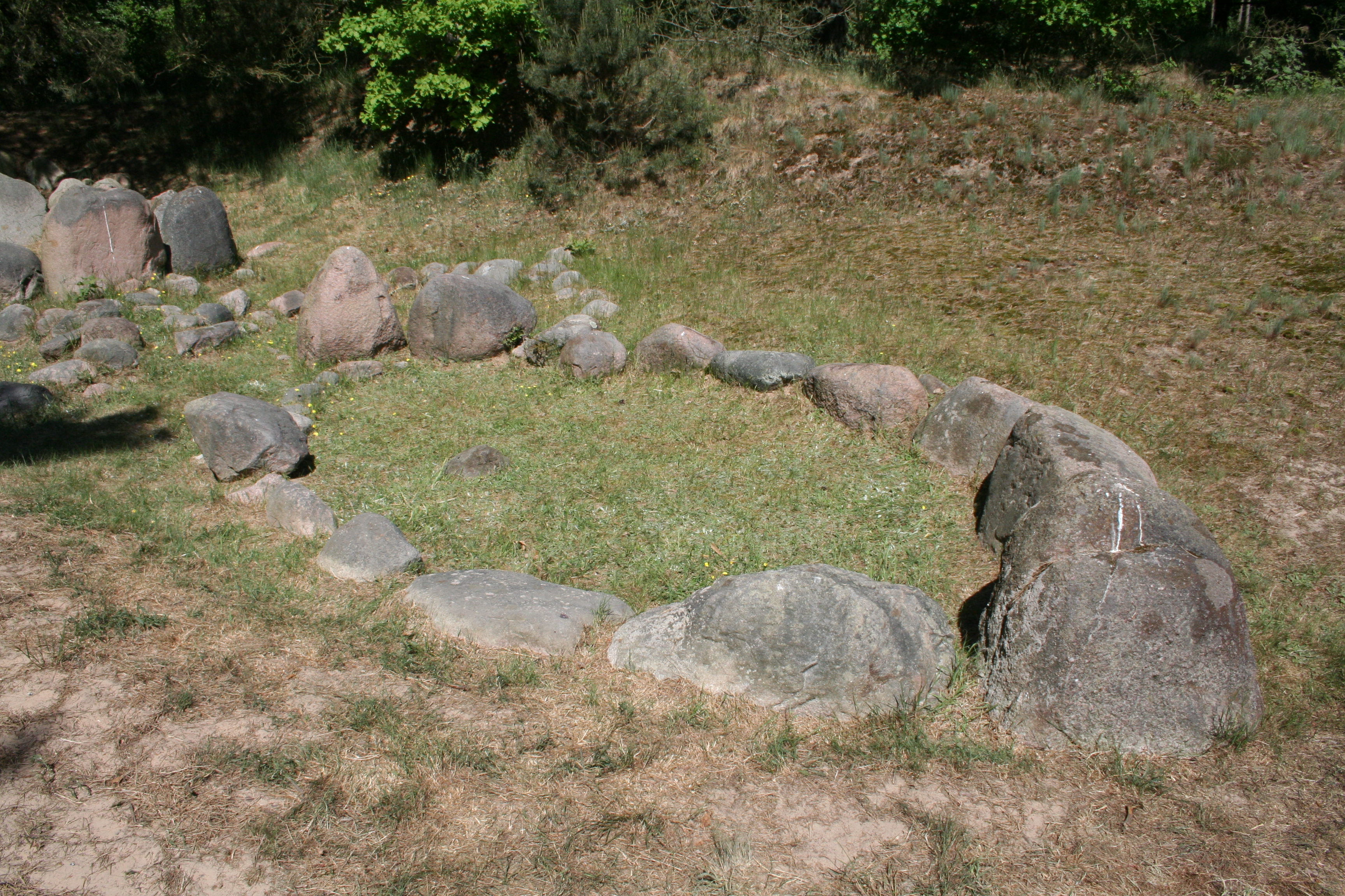 Viking age ship settings at Menzlin